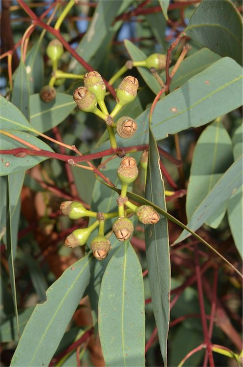 Eucalyptus ammophila foliage and immature fruit, near Aramac Range, 80km NW of Barcaldine, Queensland